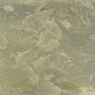 Grey marble from the Urals